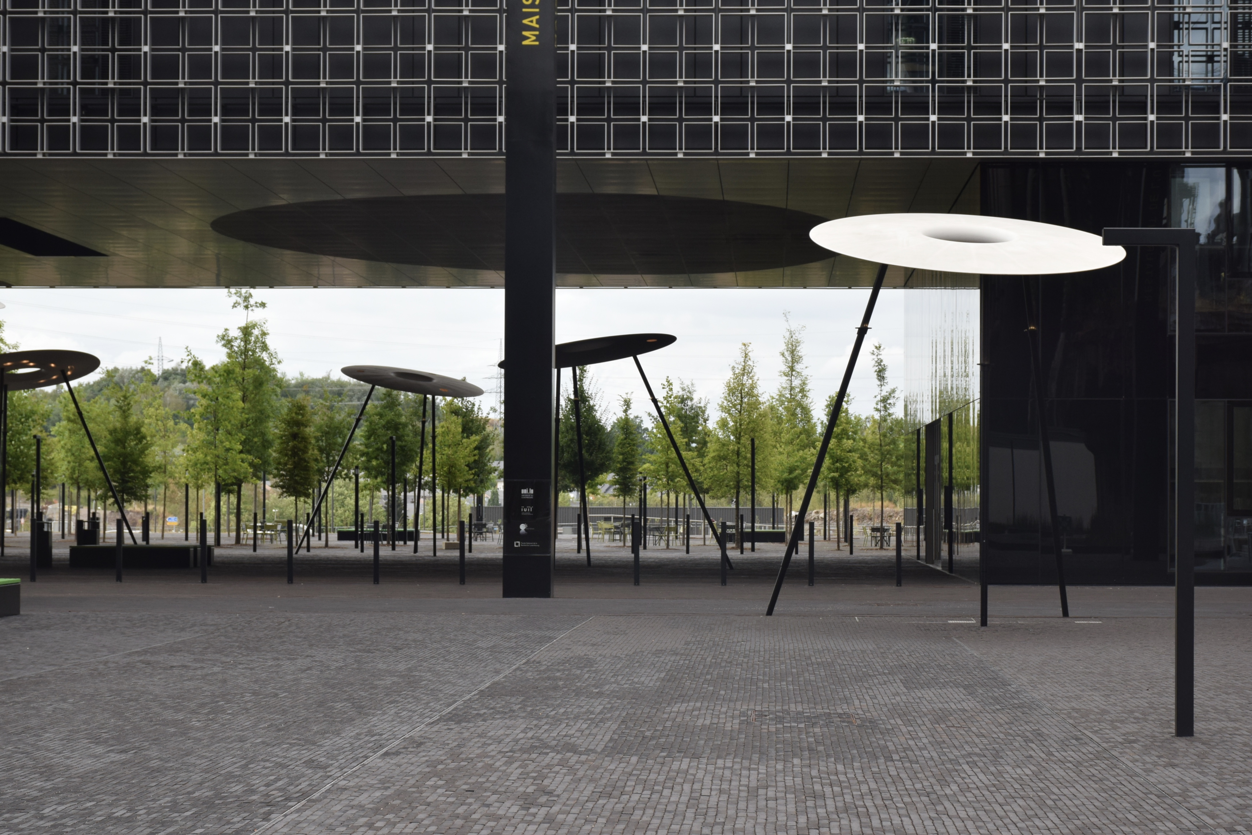 Place de l'Université, Belval, Luxembourg: Pedestrian zone underneath Maison du Savoir, the University of Luxembourg headquarters.